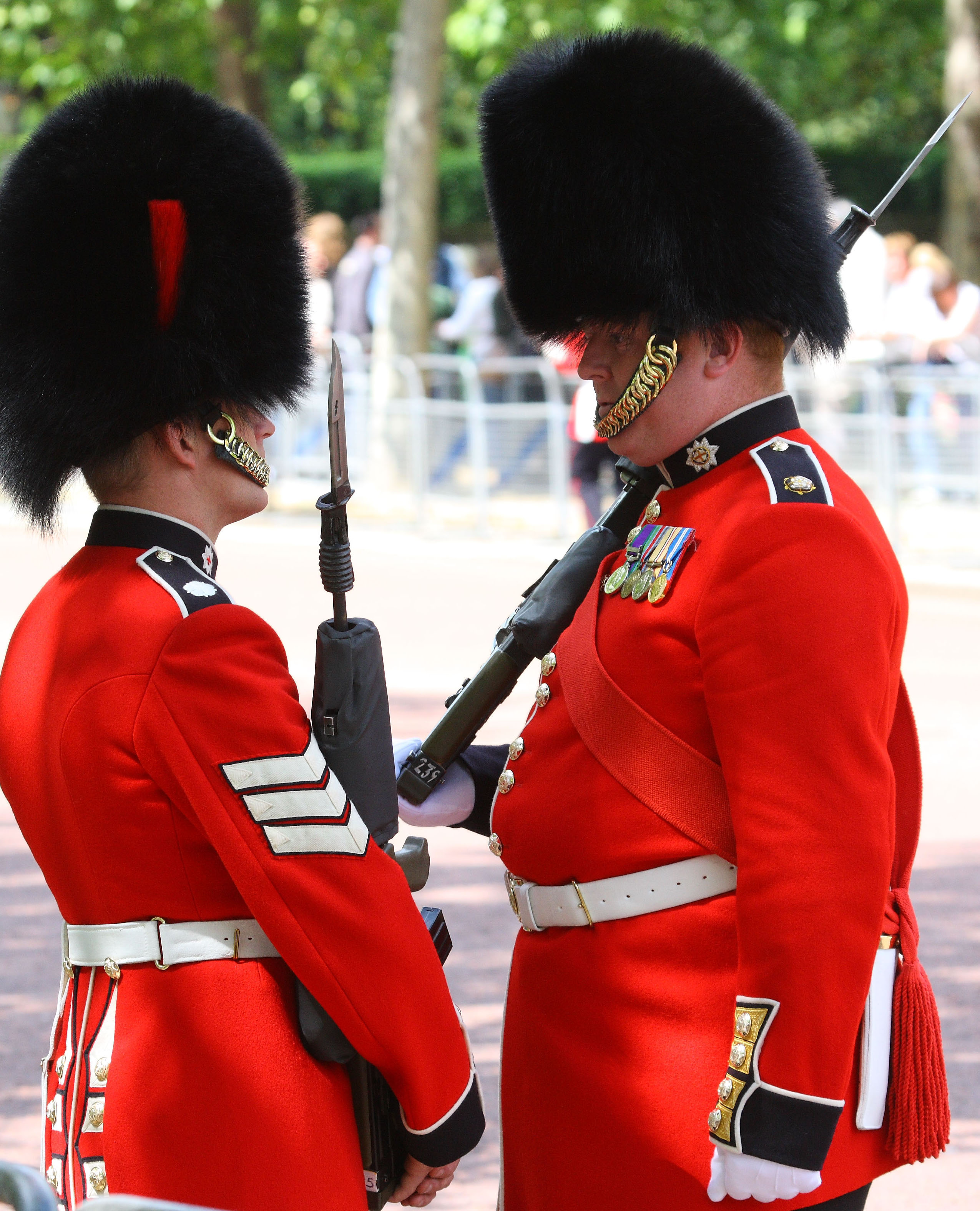 On the right, the Colour Sergeant of the Coldstream Guards speaking to a lance-sergeant prior to the ceremony of Trooping the Colour.